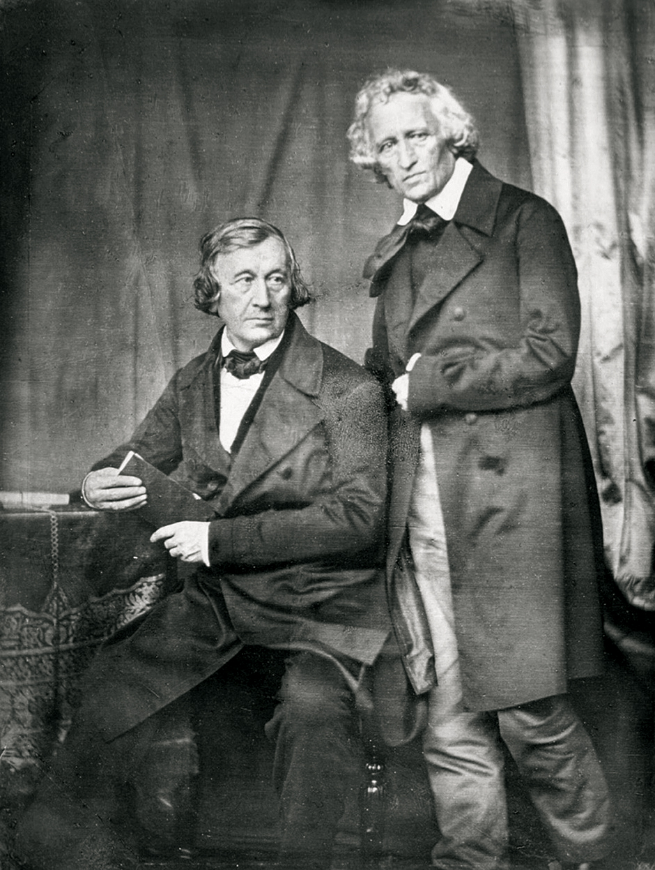 Daguerreotype.